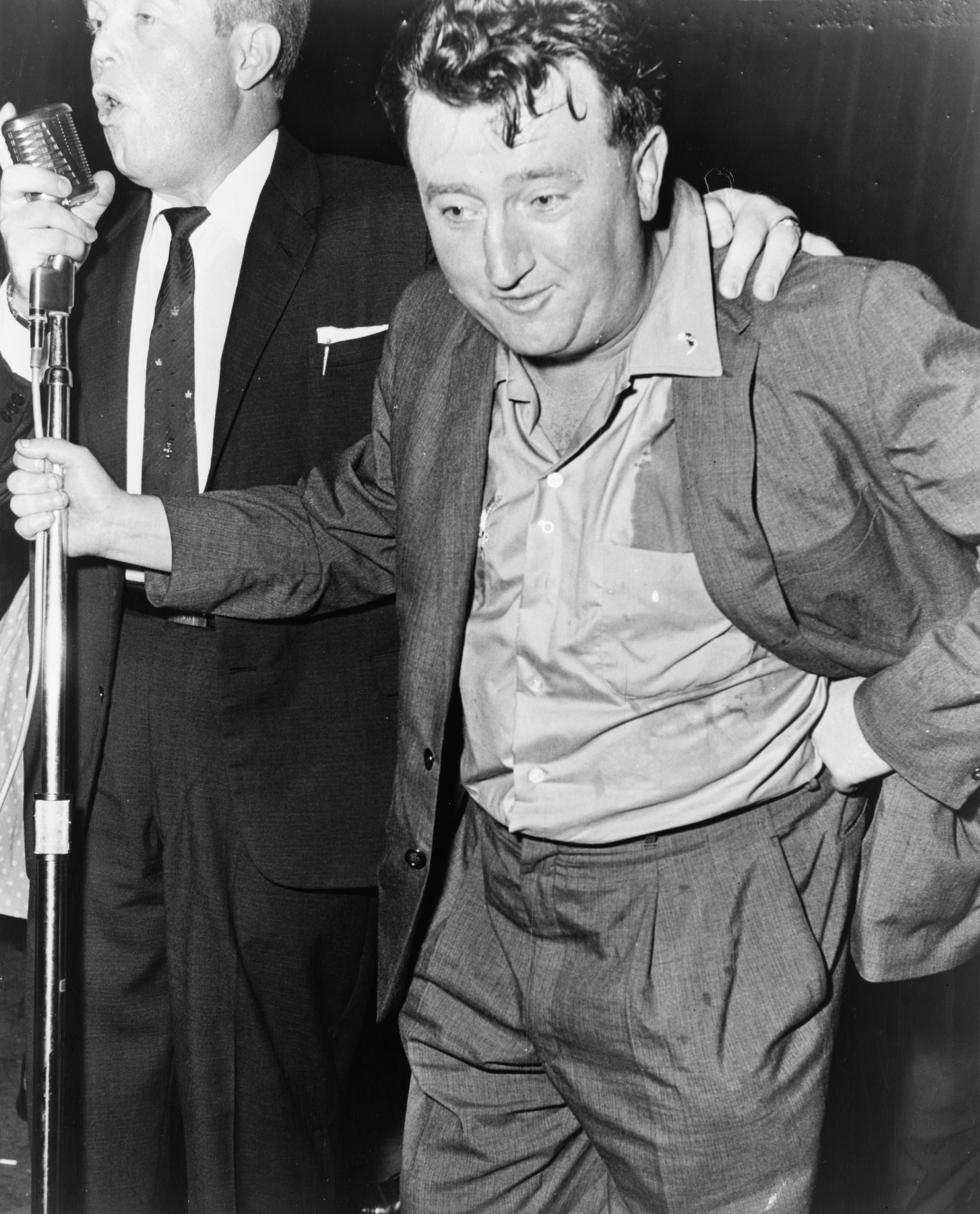 Brendan Behan being asked to sing again at the Jager house Ballroom 85st & lex av (sic) / World Telegram & Sun photo by Phil Stanziola.